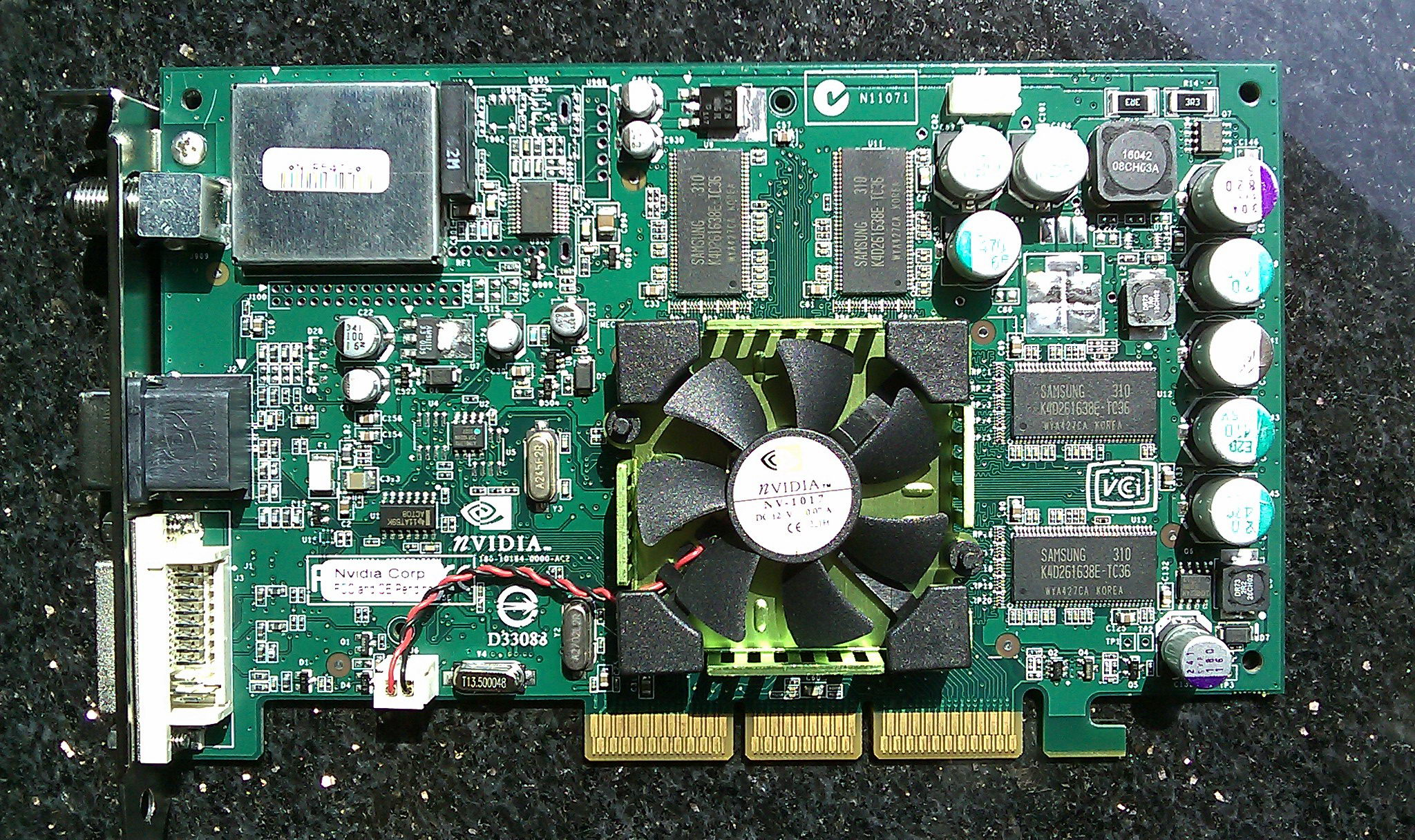 NVIDIA engineering sample graphic card